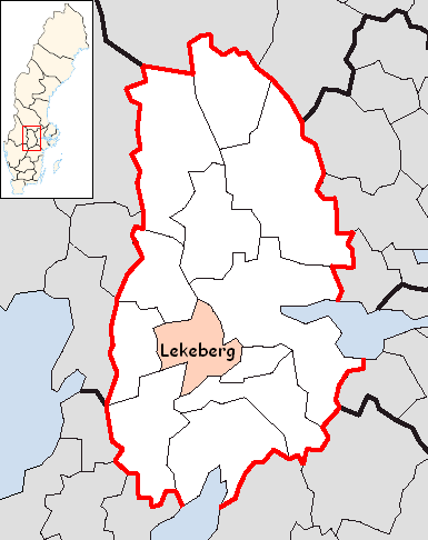 Lekeberg Municipality in Örebro County Designd by me, based on Image:Örebro County.png